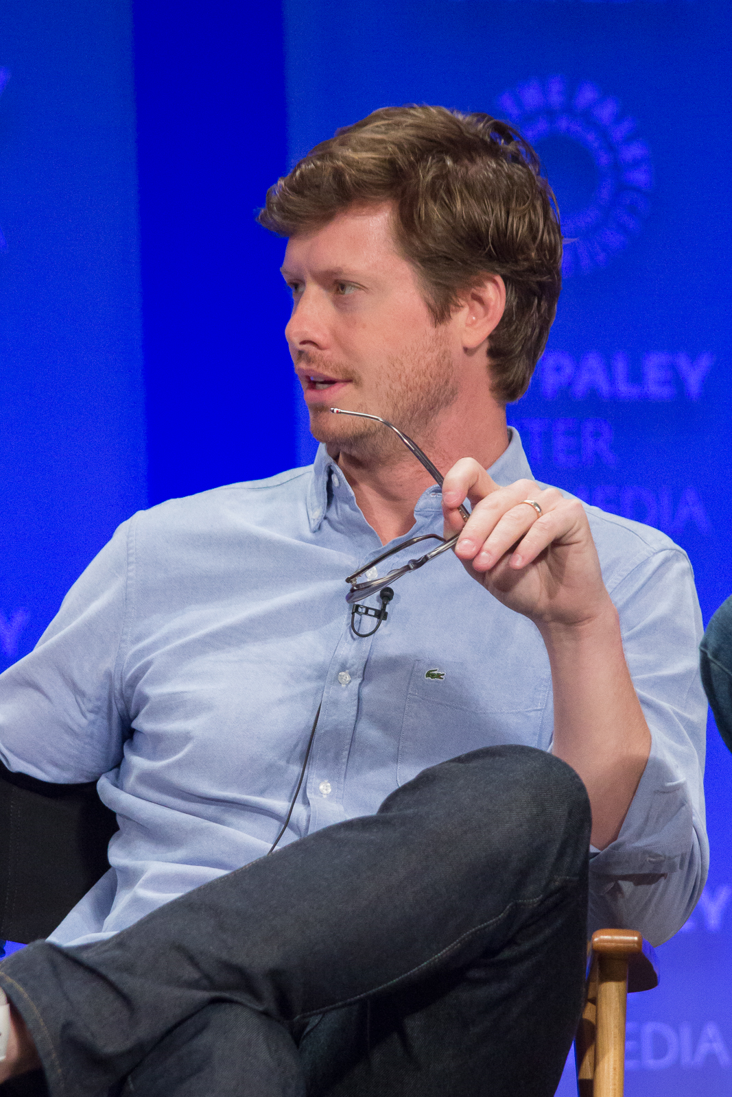 Anders Holm at PaleyFest 2015 - A Salute to Comedy Central